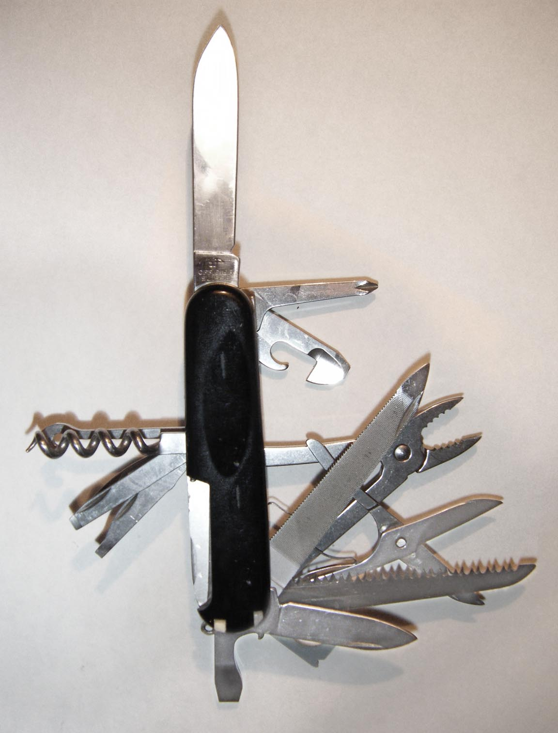 Victorinox pocket knife